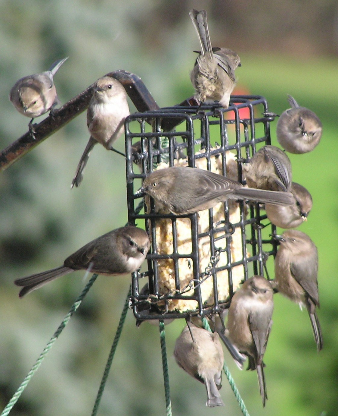 Bushtits mass on a birdfeeder in Salem, Oregon.